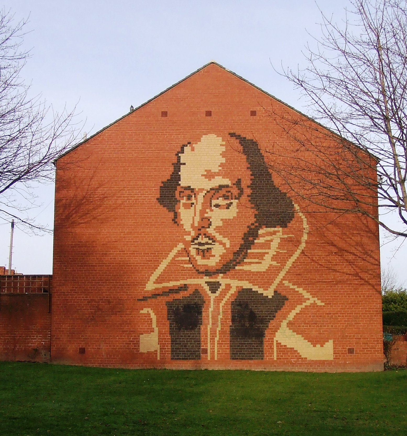 wall of 47 South View, off Stratford Road, Heaton, Newcastle upon Tyne, depicting Shakespeare